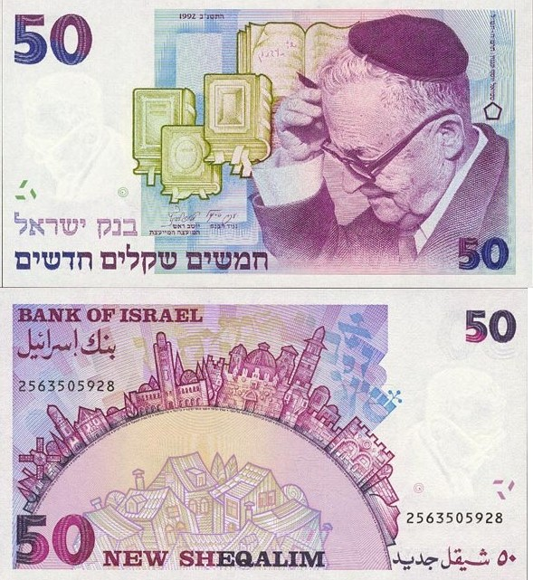 Obverse & Reverse side of a 50 sheqalim bill, paper.